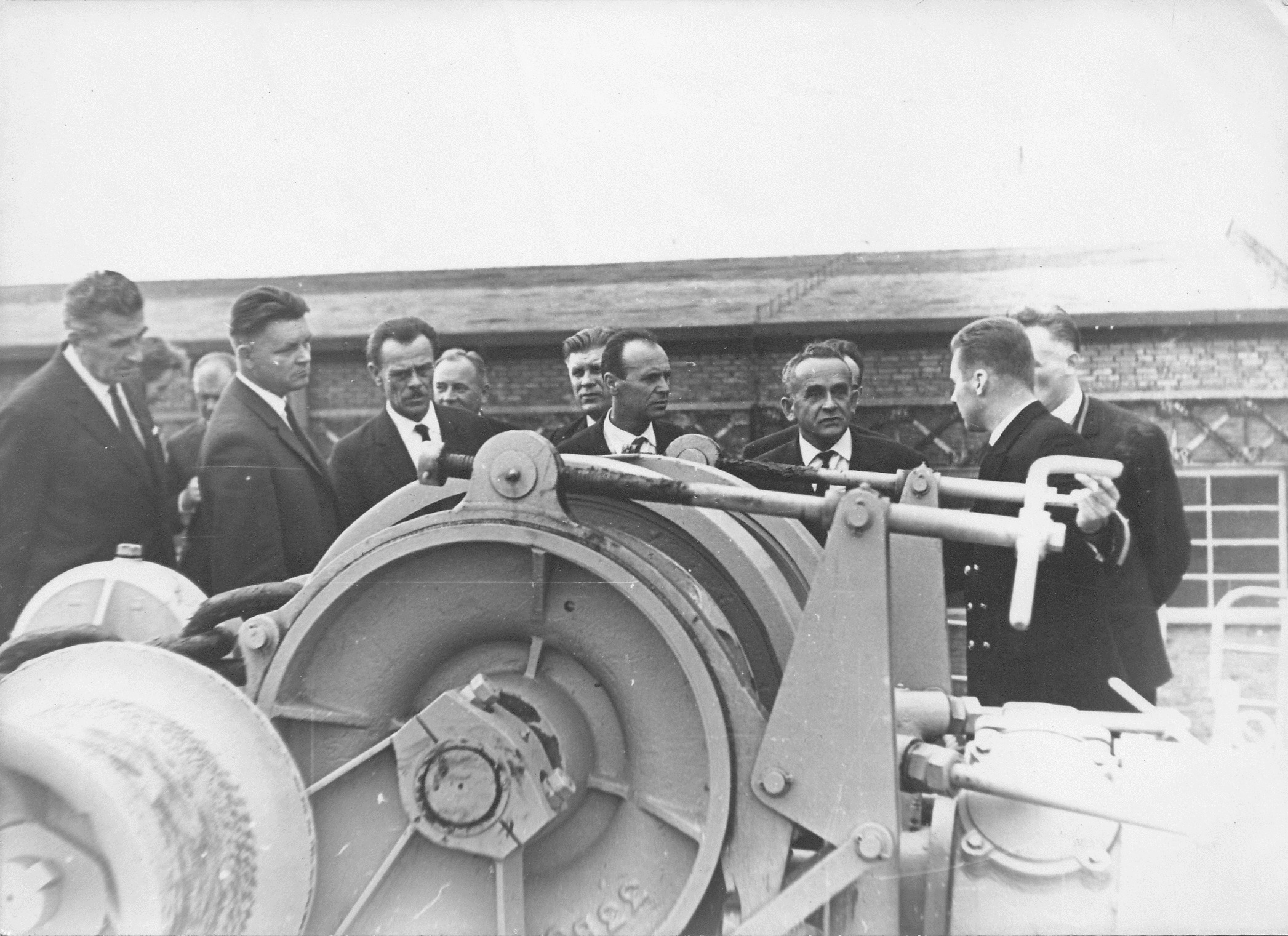 Launching MS Sanok